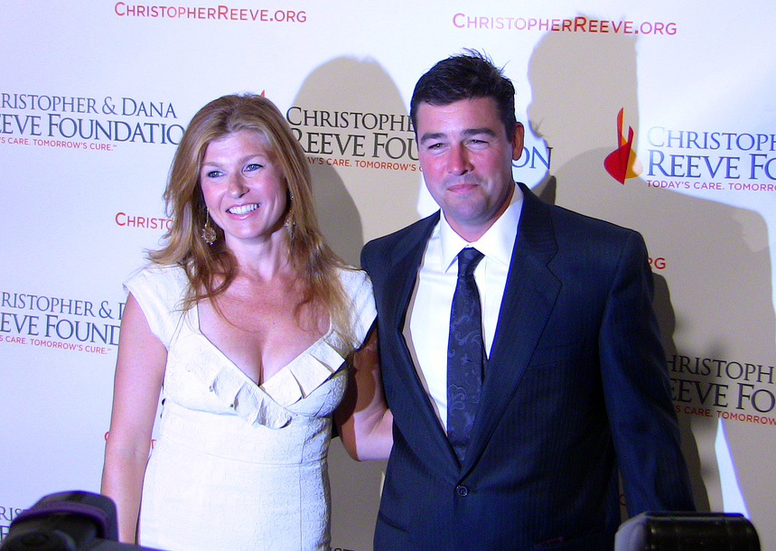 Connie Britton and Kyle Chandler - Making Magic Happy, Beverly Hilton, Beverly Hills, Calif. - Dec. 2, 2008